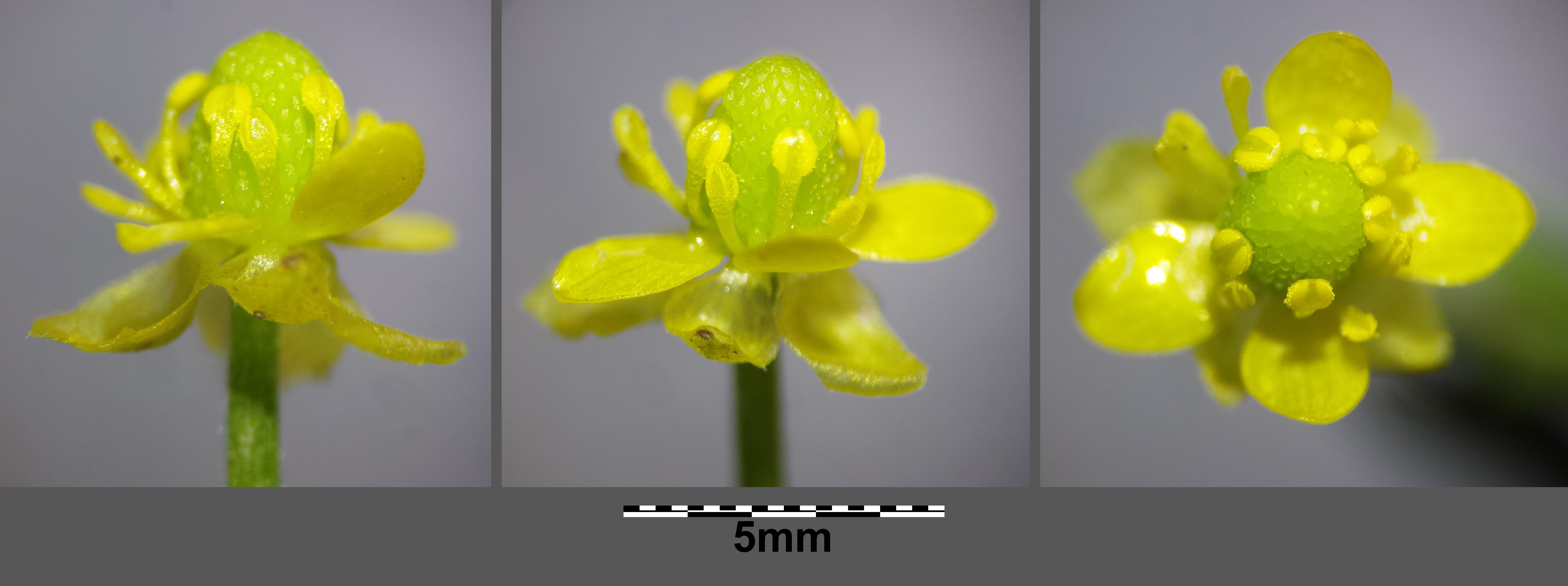 Flower Taxonym: Ranunculus sceleratus ss Fischer et al. EfÖLS 2008 ISBN 978-3-85474-187-9 Location: pond near Michelstetten, district Mistelbach, Lower Austria - ca. 250 m a.s.l. Habitat: shore of a pond